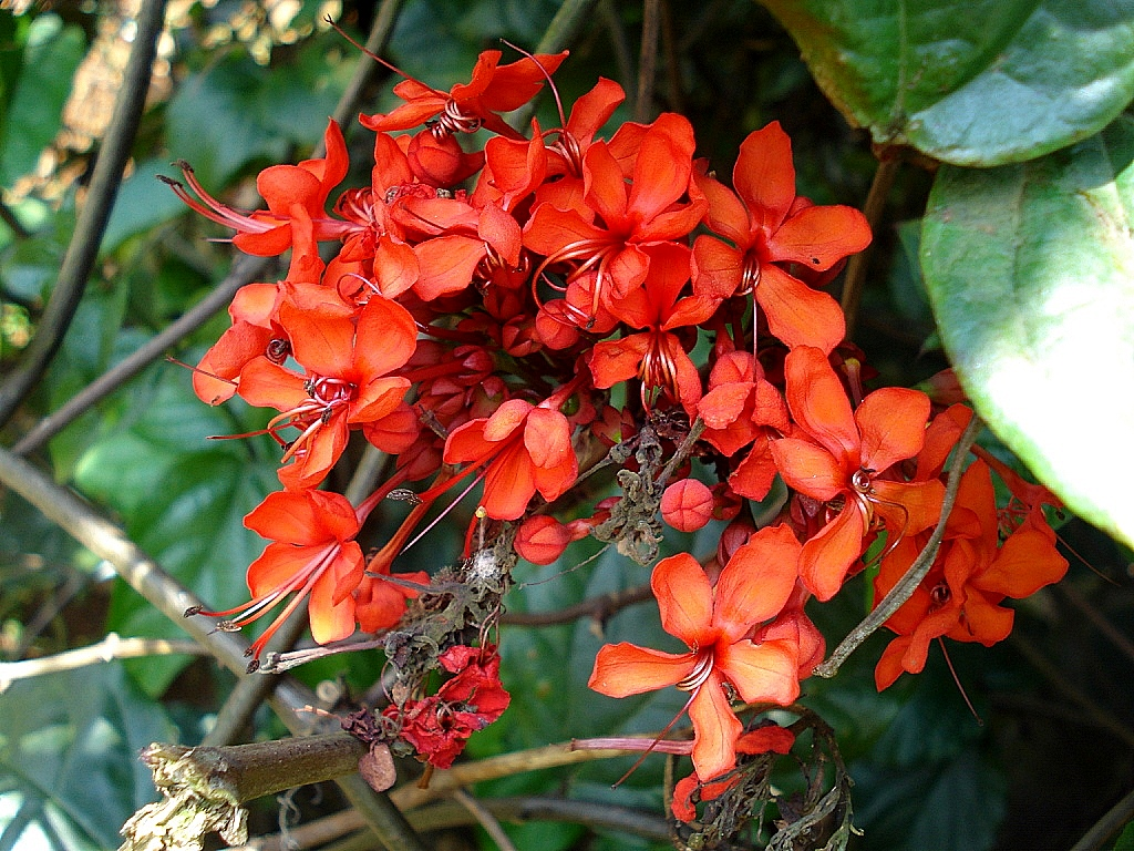 Clerodendrum buchananii or Red clerodendrum in Lamiaceae family... commonly known as pagoda-flower...shot at Munnar